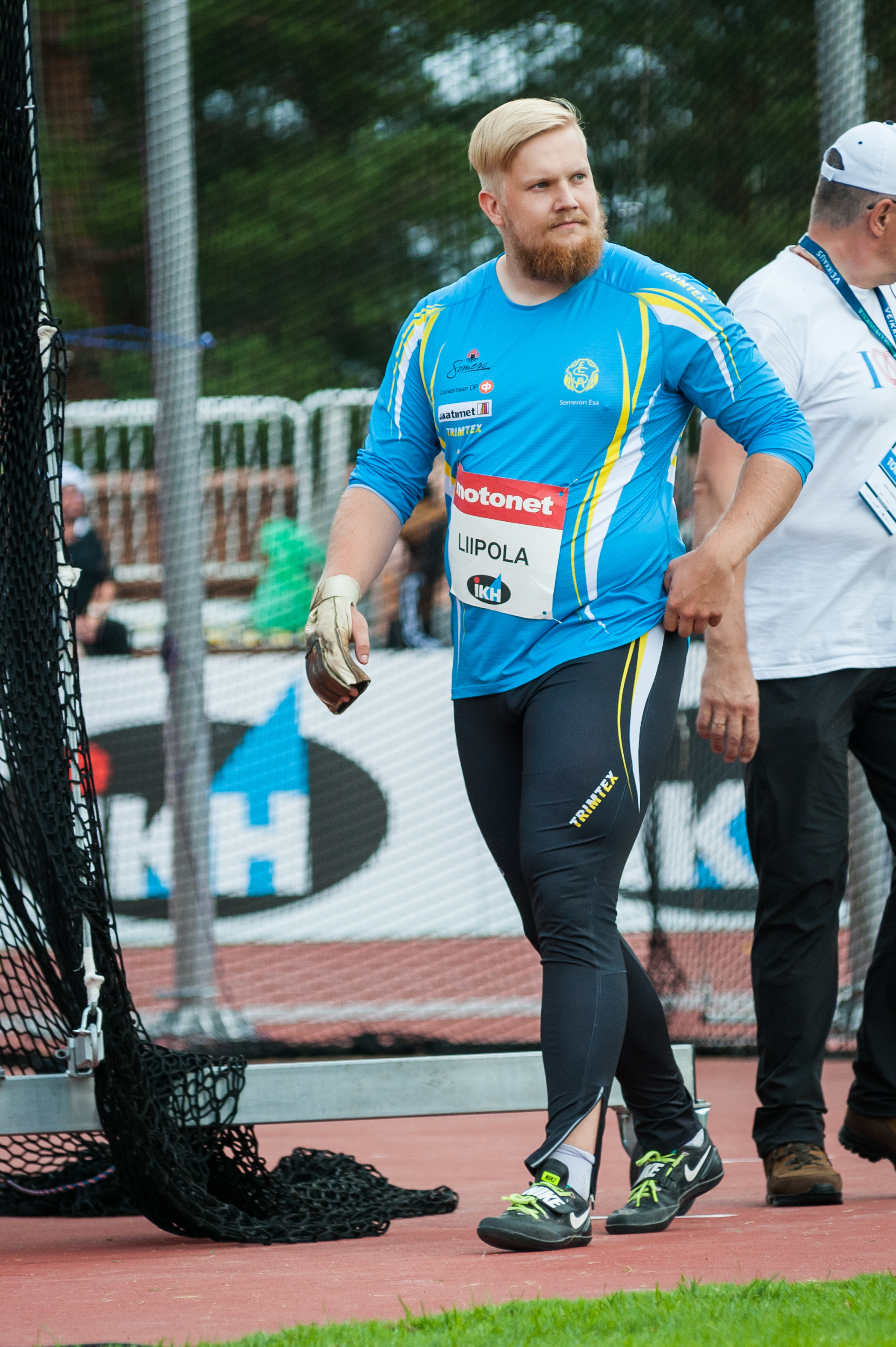 Men's hammer throw competition at the 2018 Kalevan Kisat, the Finnish championships in athletics, in Jyväskylä, Finland.